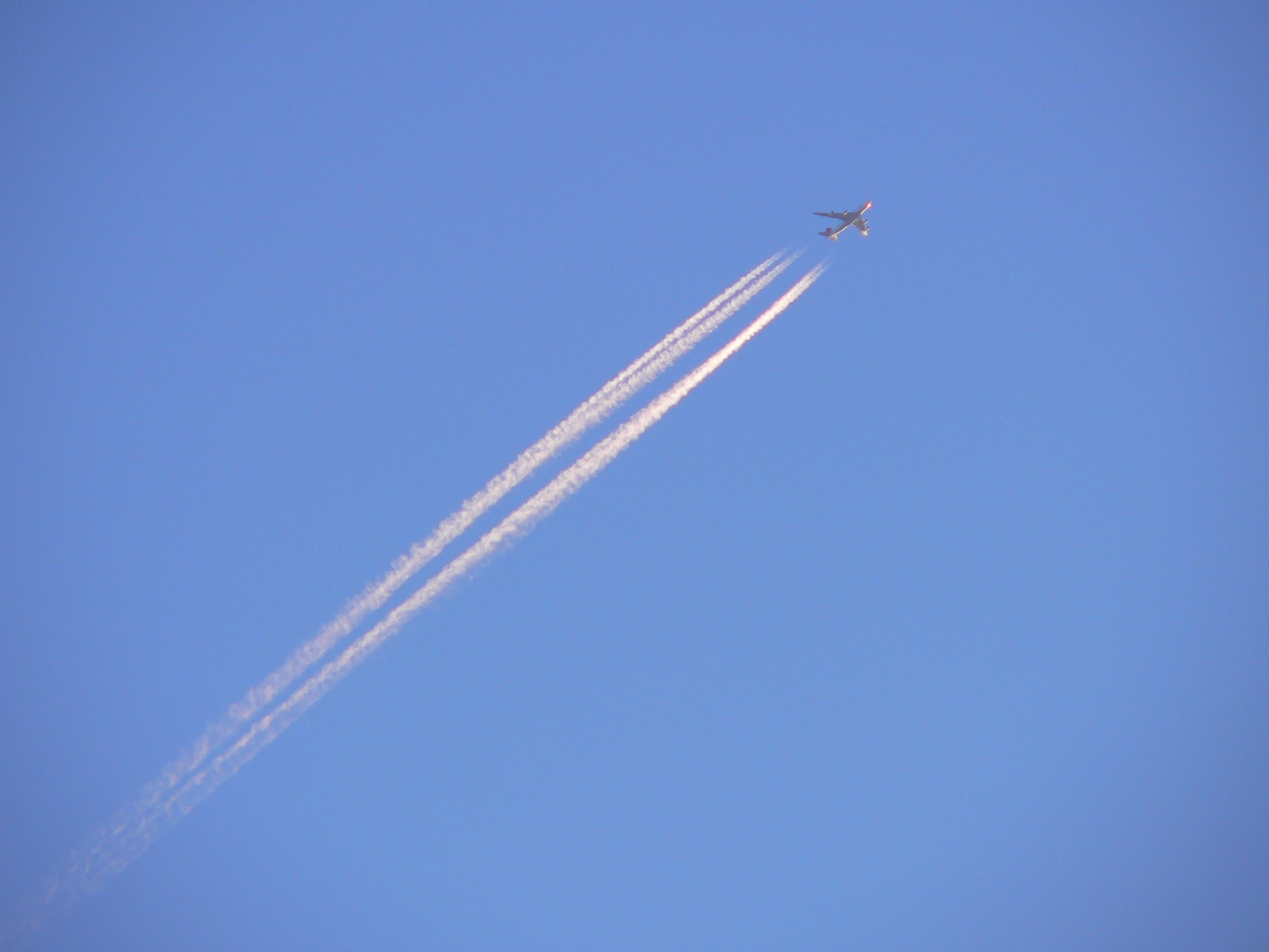 Kondensstreifen, Contrail, 747-400 der JAL (Japan Airlines) auf ihrem Weg von Amsterdam nach Tokio. JAL412 is bound for Tokyo, originated at AMS. Datum: 06.05.2005 (own work) Hendrik Harms